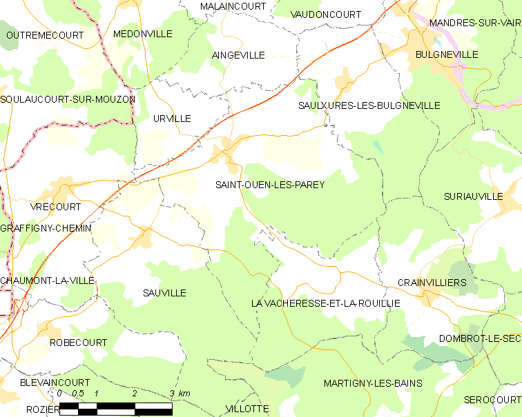 Map of French municipality Saint-Ouen-lès-Parey